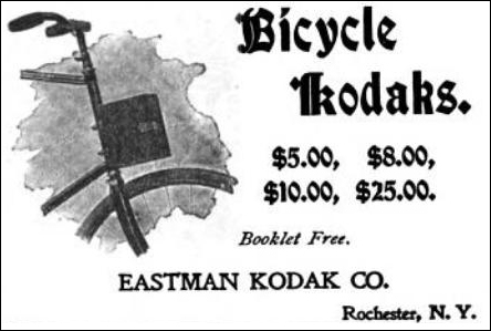 Eastman Kodak Co. - Bicycle camera - Good Roads, 1897